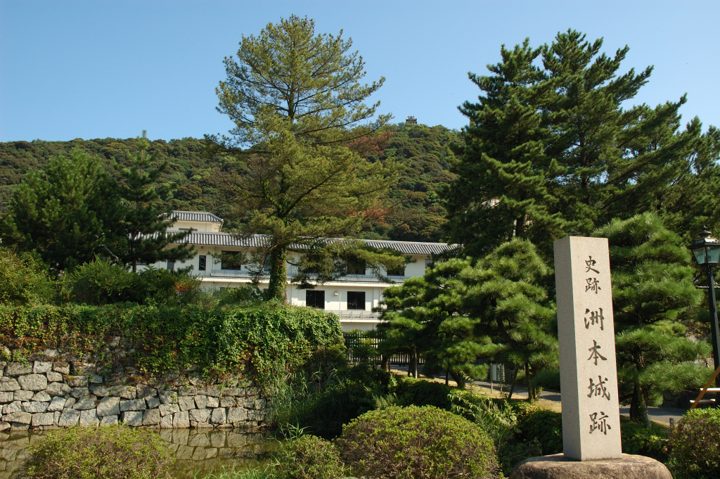 Mt.Mikuma(mountain castle) and flat castle